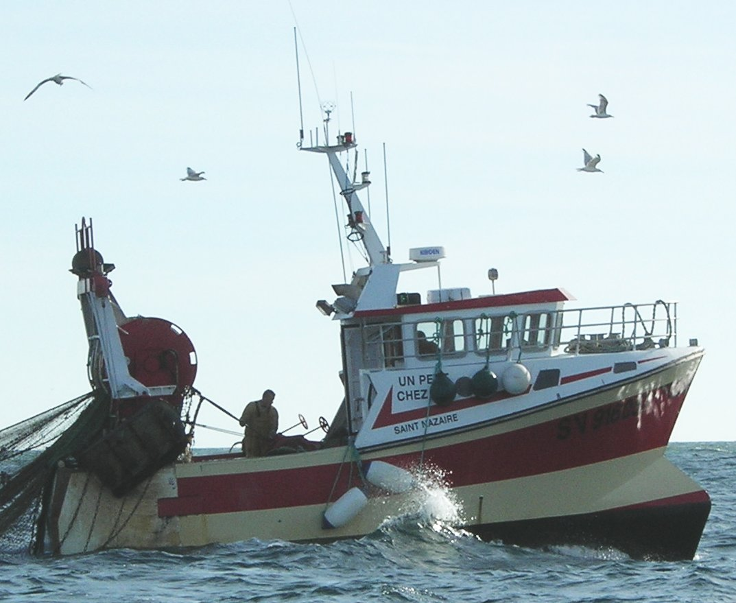 Chalutier pendant la peche. (cropped version of Image:Chalutier.JPG) This image was improved or created by the Wikigraphists of the Graphic Lab (fr). You can propose images to clean up, improve, create or translate as well.